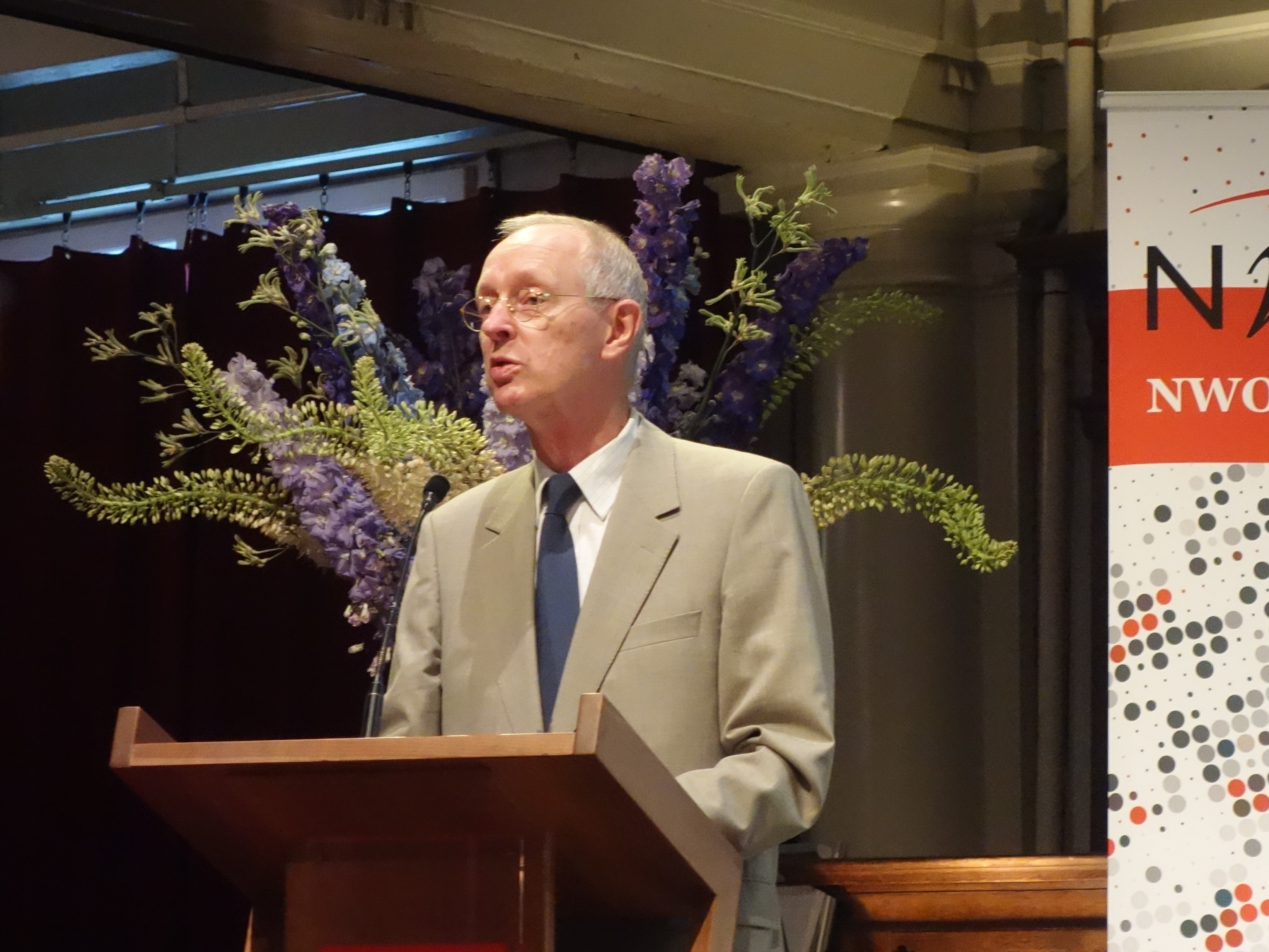 Dutch mathematician Jan Karel Lenstra (Amsterdam, June 2017)